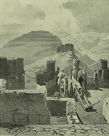 The picture shows Gazi-Kumukh fortress of the Lak people of Dagestan as depicted by the author.